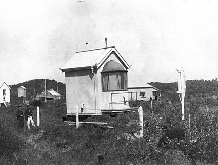 Yellow Patch, Queensland, 1917